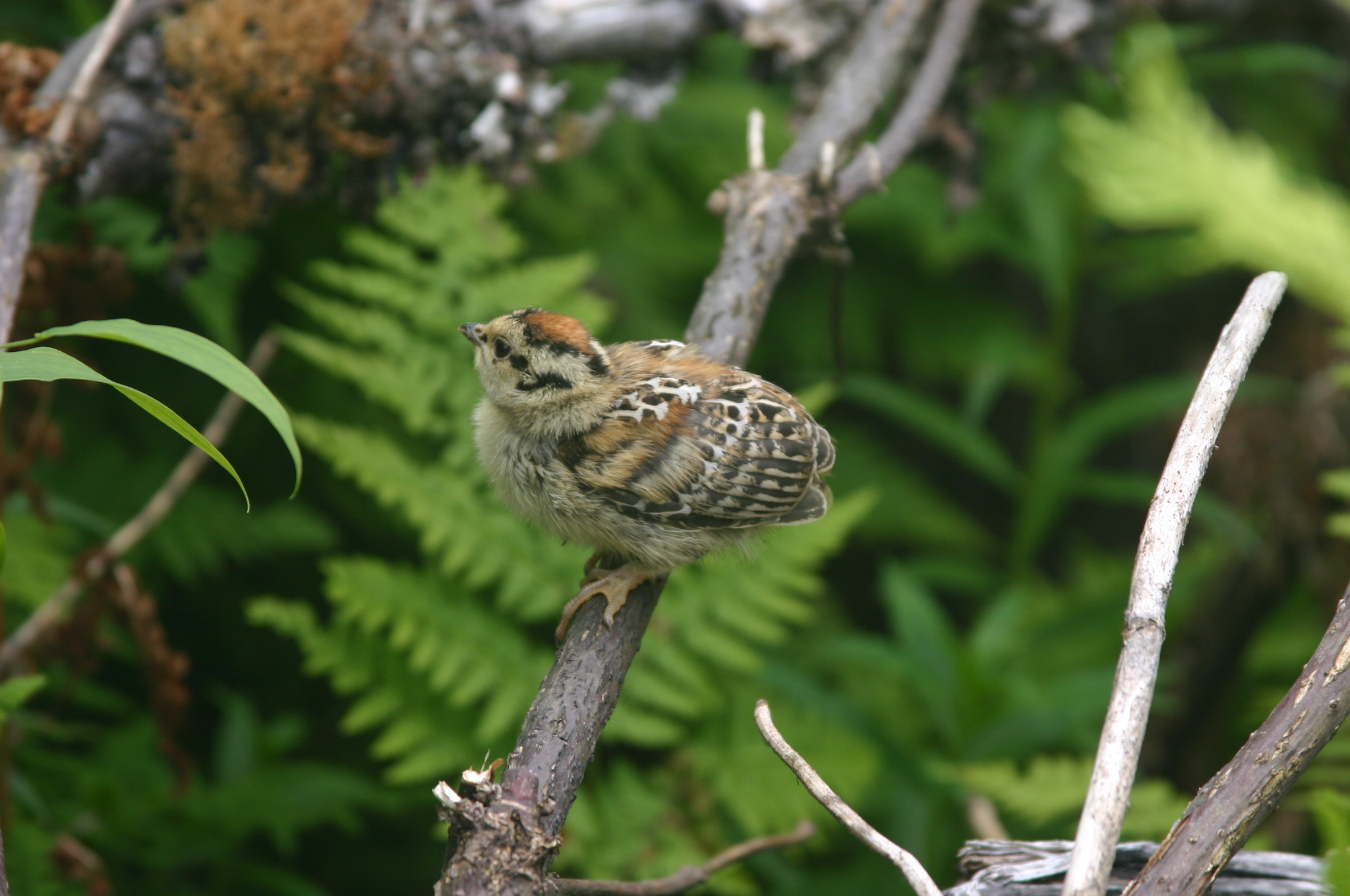 Spruce Grouse, chick